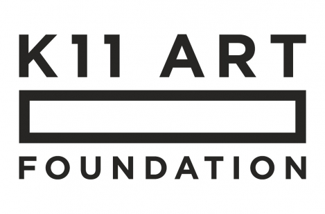 K11 Art Foundation Logo